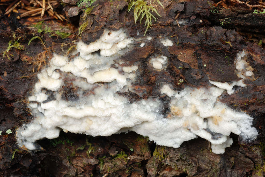 fruiting body in fresh state